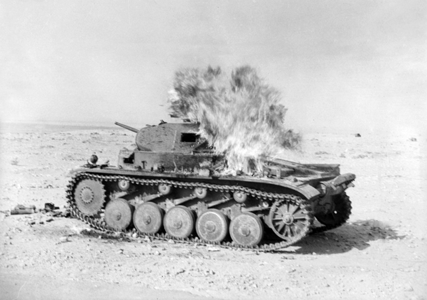 A Molotov cocktail hits an abandoned German Panzer II at Tobruk on 30 April 1941.